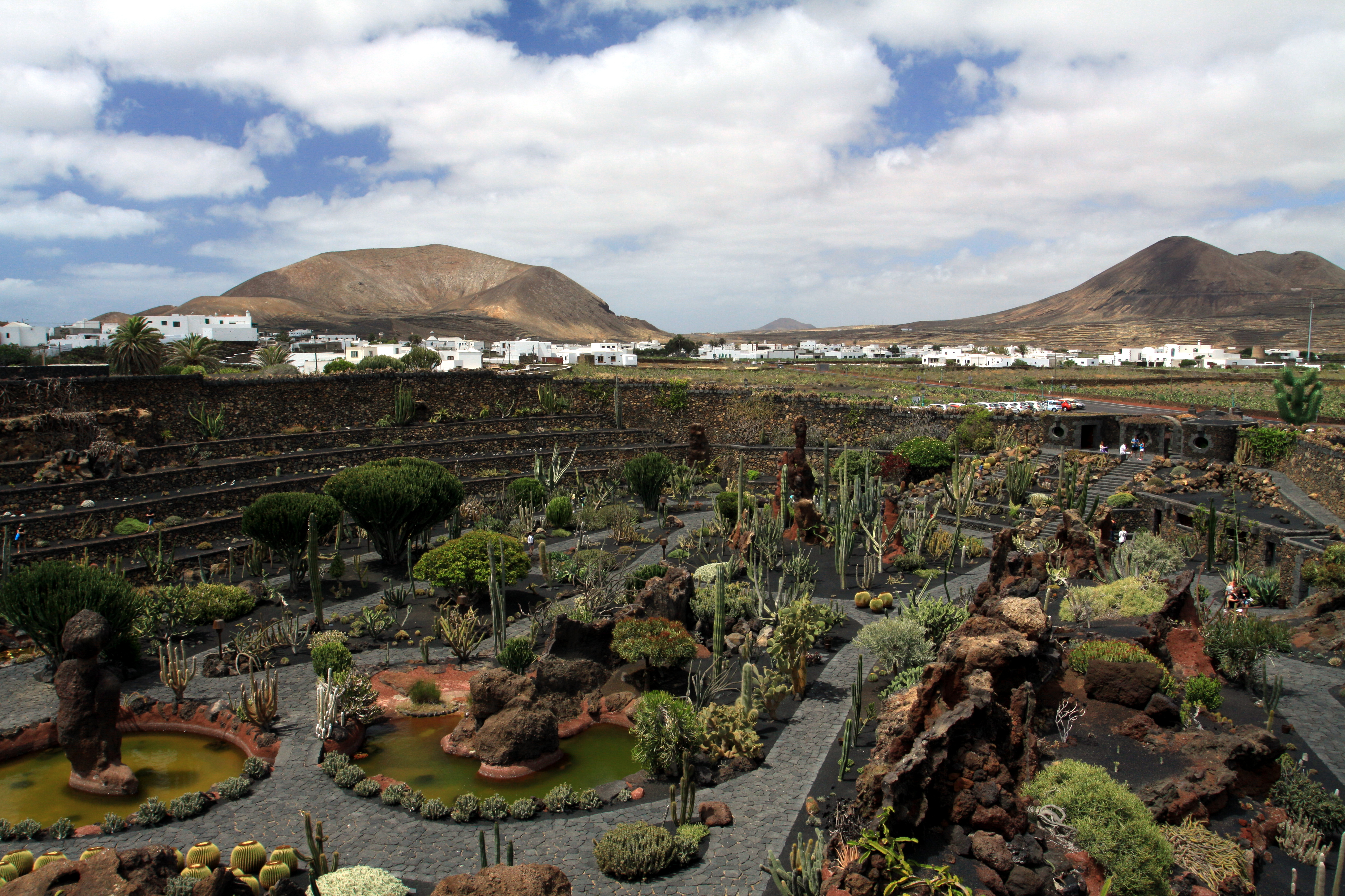 The Jardin de Cactus in Guatiza on Lanzarote, The Canary Islands, Spain - Google Maps - Google Earth